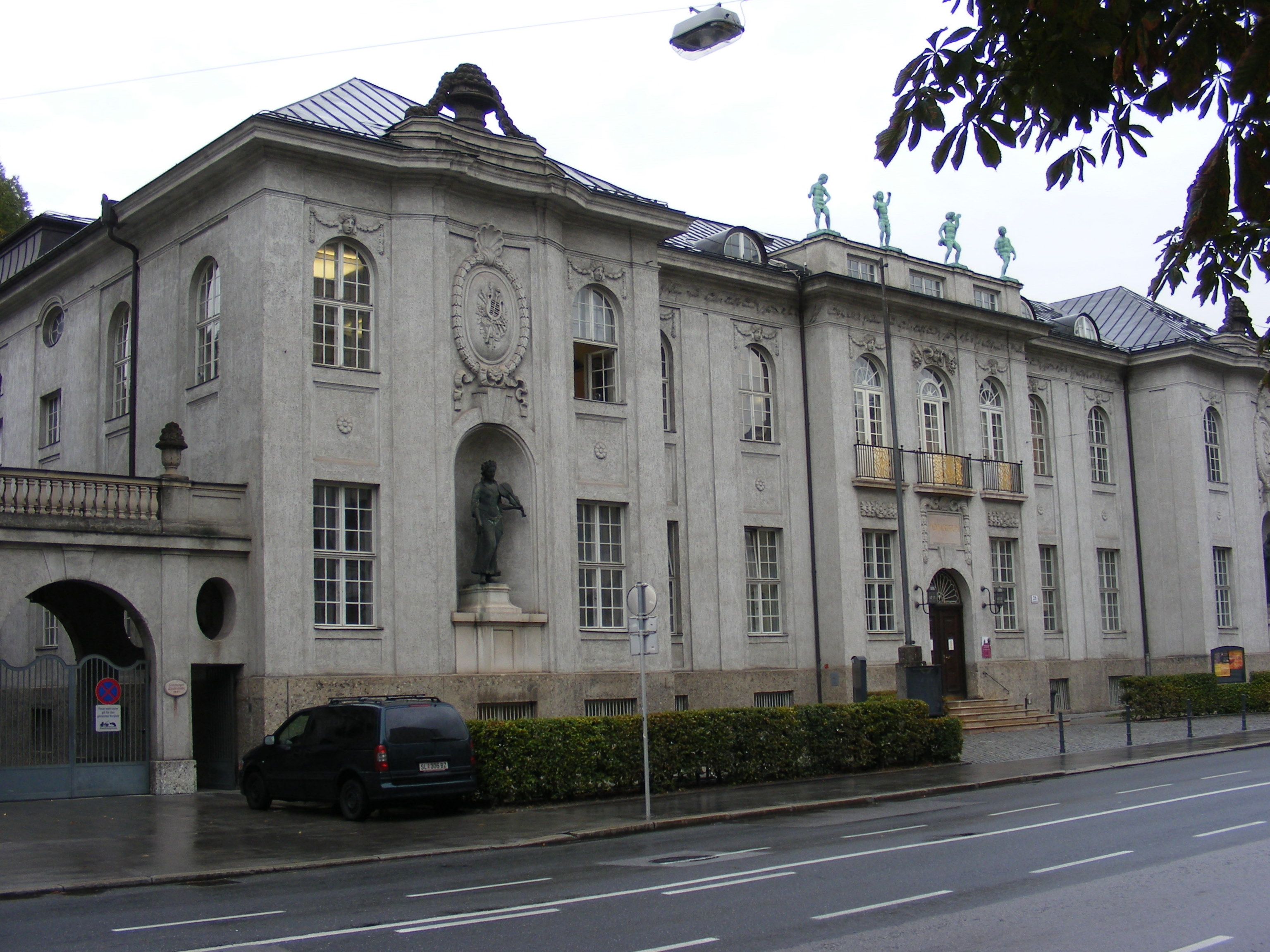 Internationale Stiftung Mozarteum (International Mozart Foundation), administration, library and Wiener Saal ("Vienna Hall")